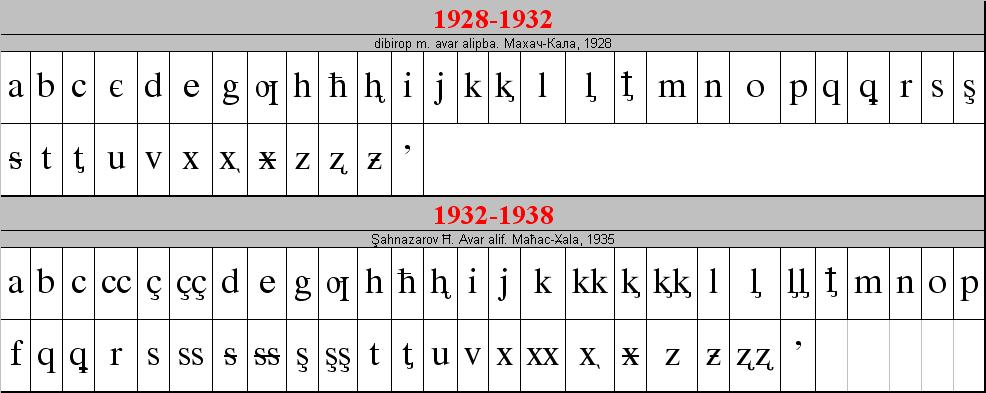 2 versions of Avar latin alphabet